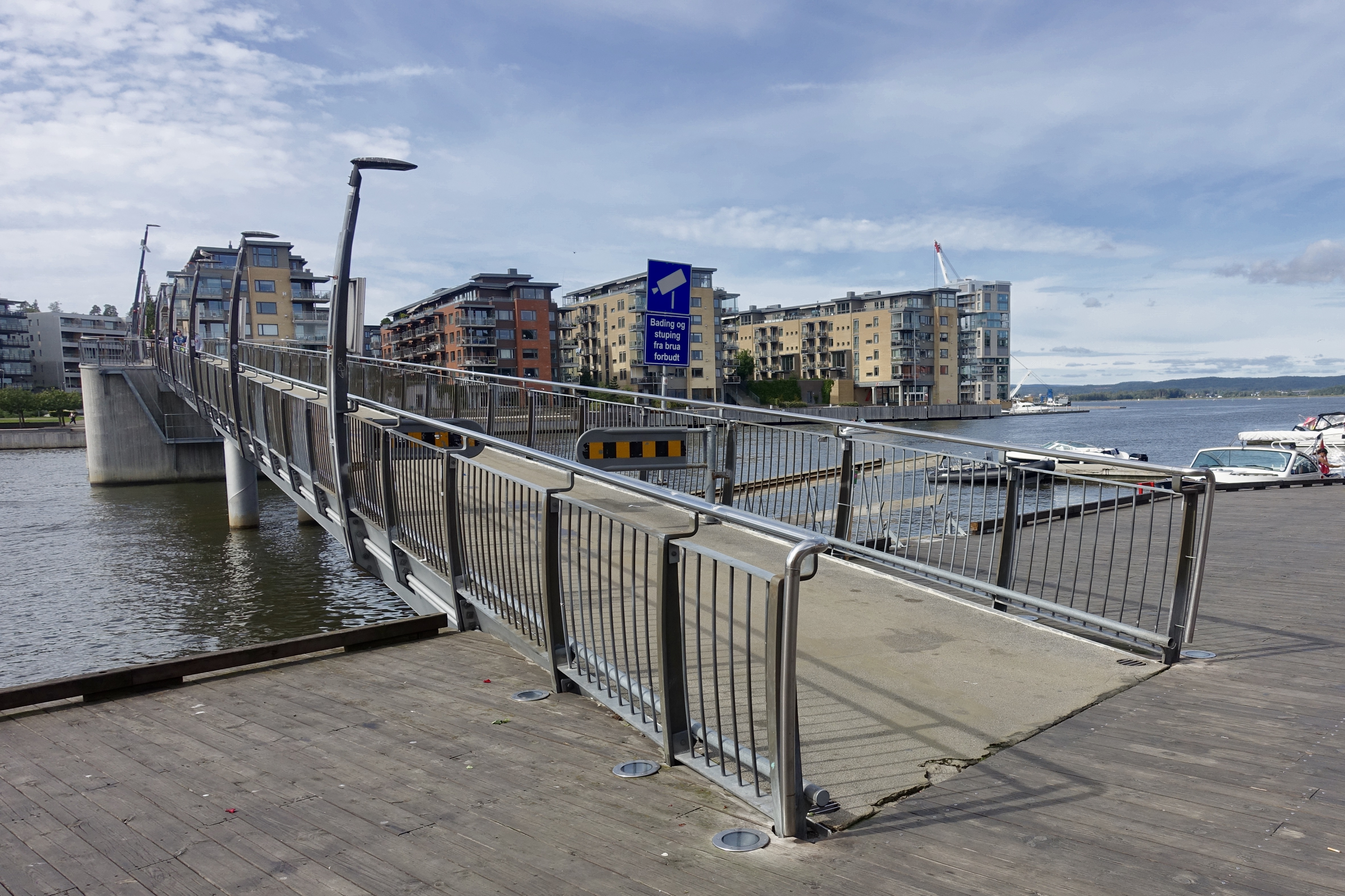 Kaldnes bru (bro), a bascule footbridge (in Norwegian: vippebro, gang- og sykkelbro) across Byfjorden fiord (Kanalen, Tønsbergfjorden) in the harbour of the small city of Tønsberg, Norway. The bridge connects the dock at the city side (Brygga, Gjestebrygga) and the offices and appartements in the Kaldnes area. Also board walk, camera surveillance sign (kameraovervåkningskilt: Bading og stuping fra brua forbudt), etc. Photograph taken on August 24th, 2019.